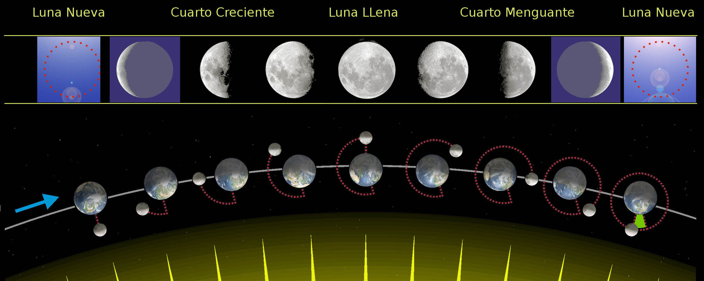 Moon phases, as seen by an observer in the Southern hemisphere of the Earth